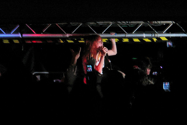 Paramore concert